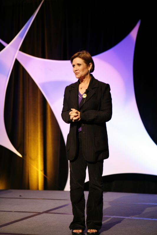 Photo by Jenny Elwick. Read more at the Official Celebration IV blog.